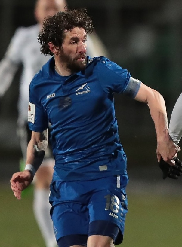 Mladen Kašćelan with FC Baltika Kaliningrad in a Russian Cup game against FC Torpedo Moscow.